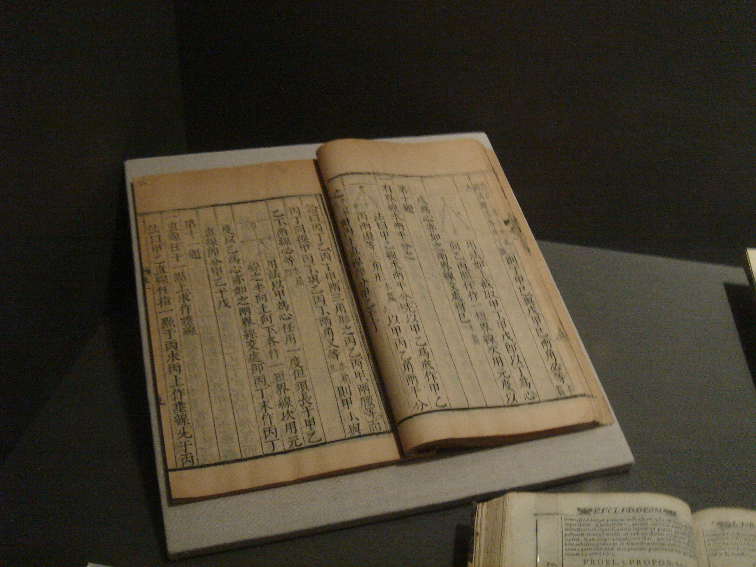 Euclid's Elements Chinese version, Matteo Ricci translated, after 1610, Beijing printed book 中文（中国大陆）: 《几何原本》北京印刷书，利玛窦译，1610年以后，藏于罗马中央国立图书馆，摄于北京首都博物馆